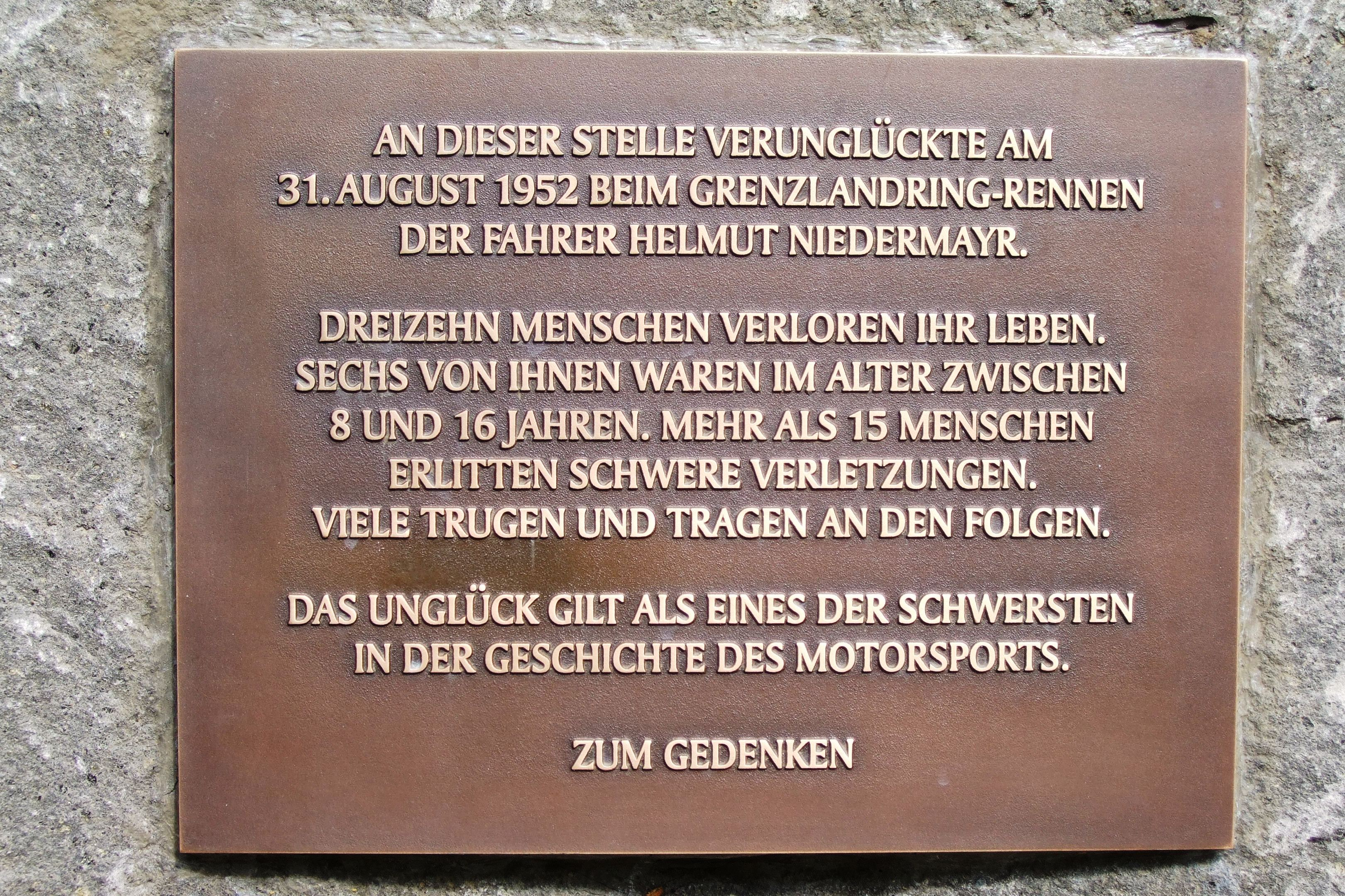 2012 memorial stone plaque for the 1952 Helmut Niedermayr accident at the former racing track Grenzlandring at Wegberg in Germany.